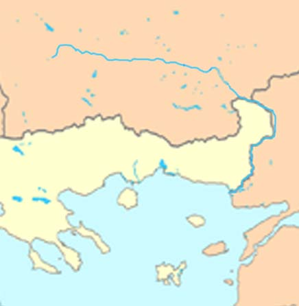 River Evros (Maritsa)